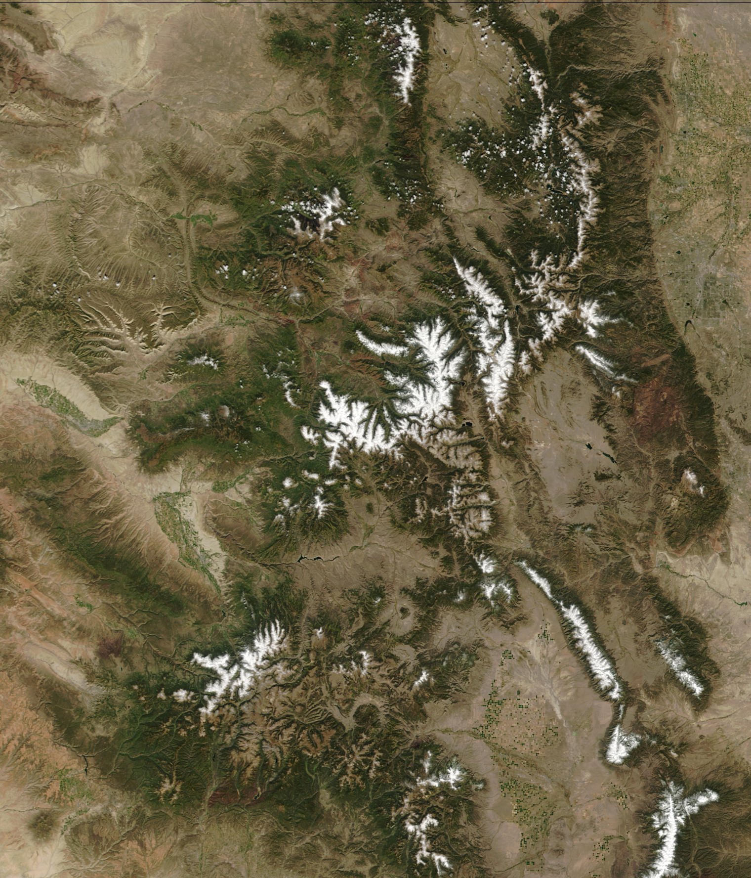 Rocky Mountains from space, cropped to show Colorado only.